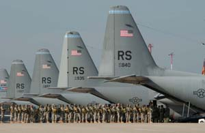 C-130s at Ramstein Air Base, Germany